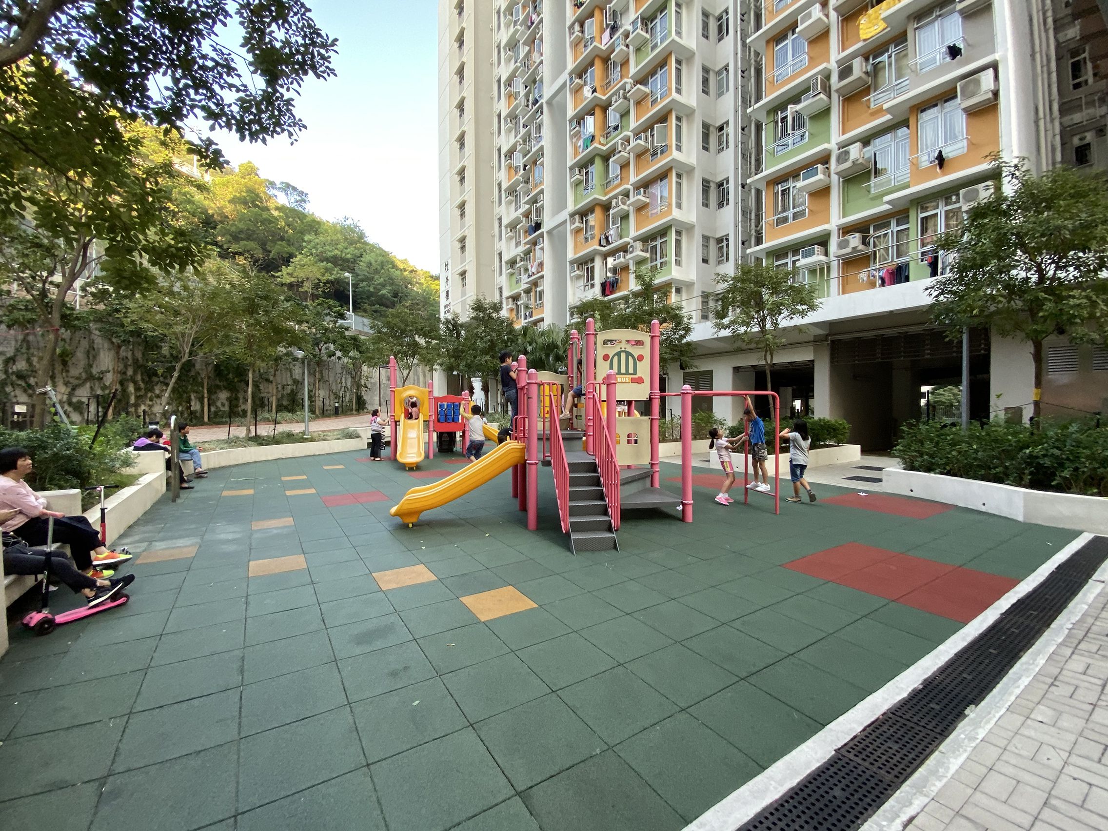 So Uk Estate Peony House playground